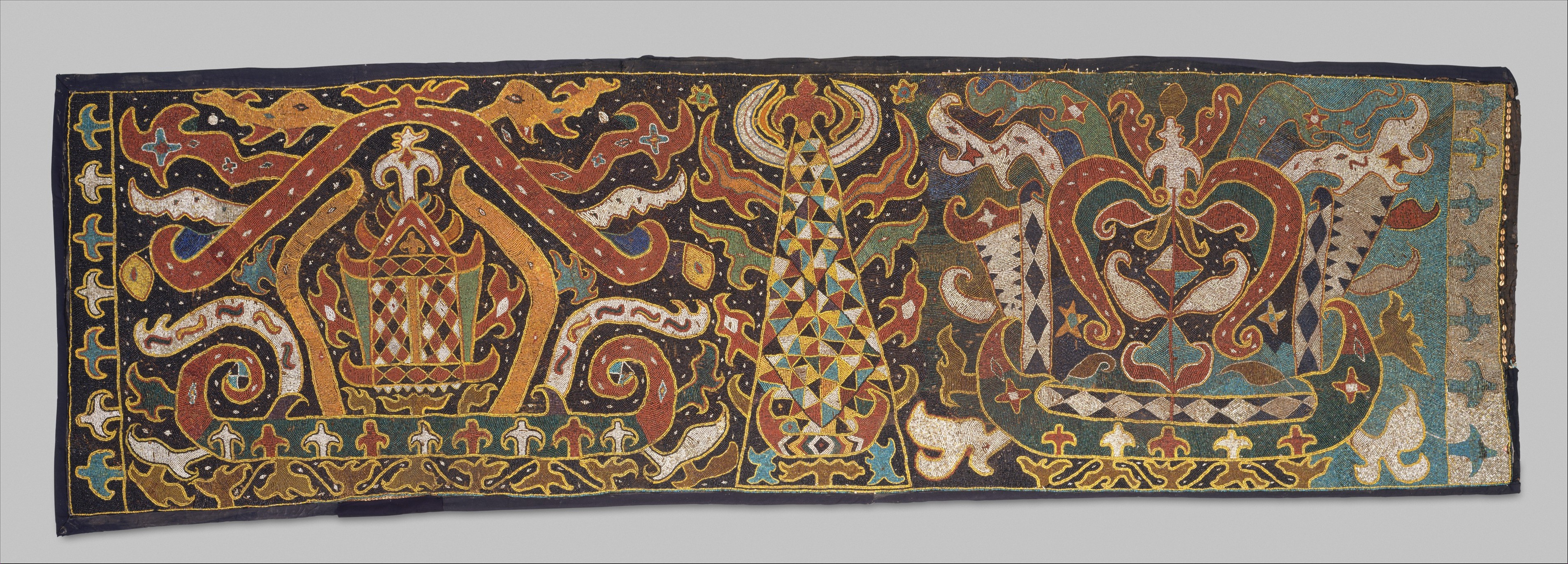 Lampung; Banner; Textiles-Beadwork